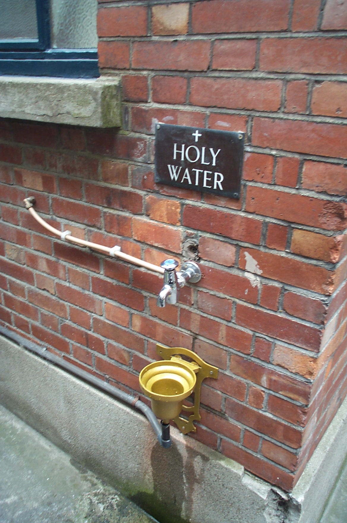 Holy water at St Teresa's (Carmelite) church, Clarendon Street, Dublin